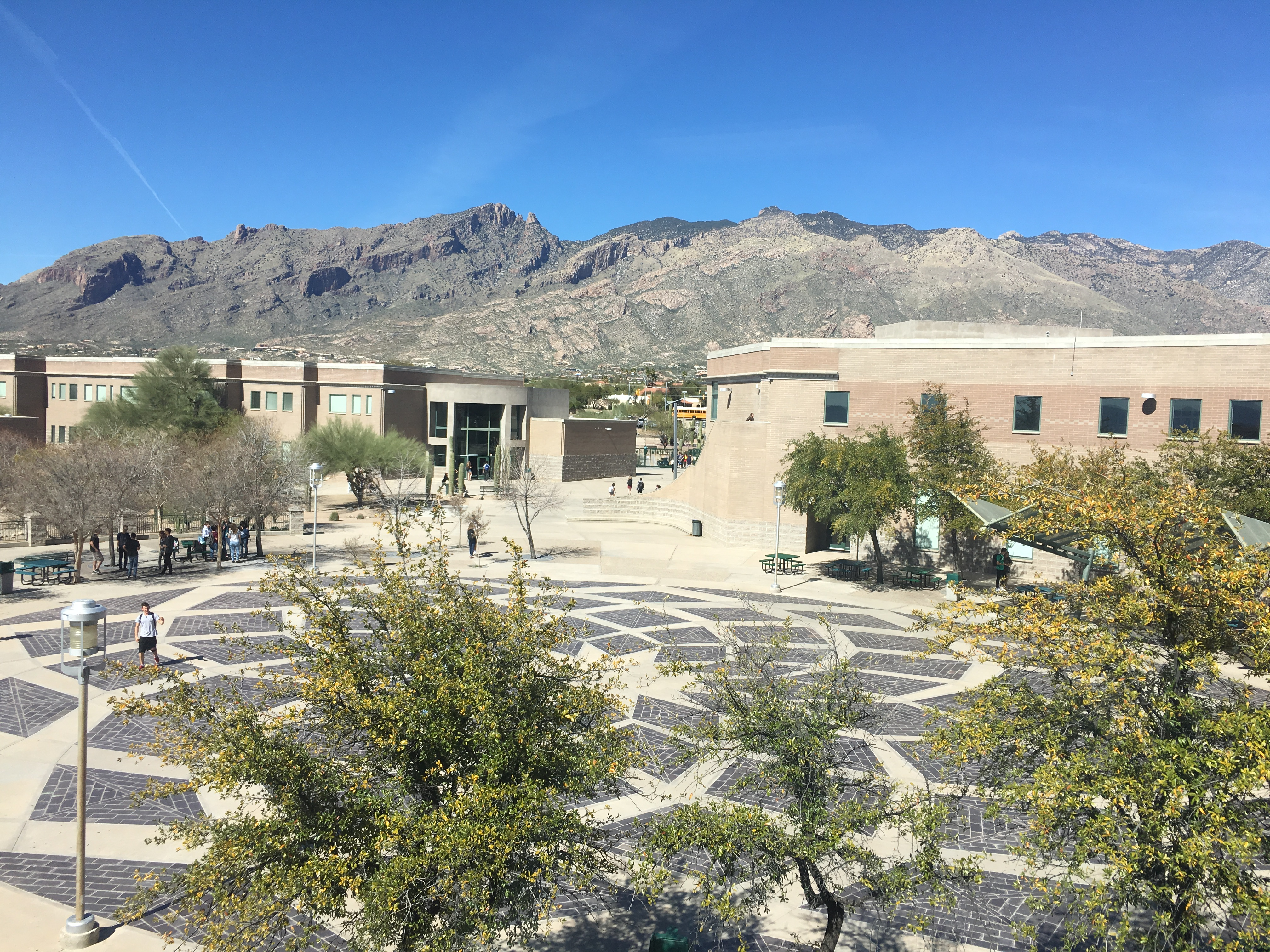 The plaza at Catalina Foothills High School was inspired by the work of Michelangelo.